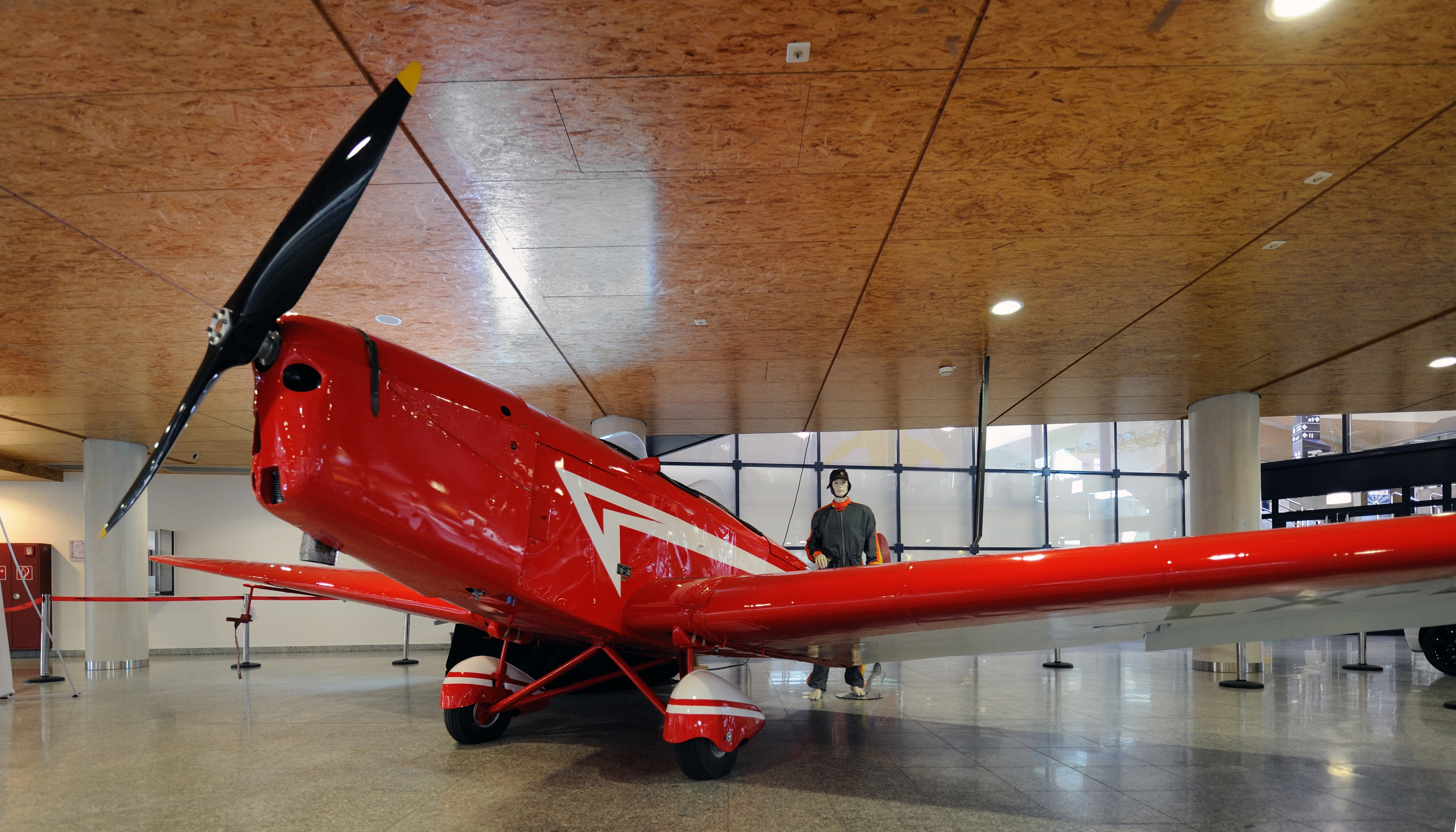 A restored Klemm L25 plane in Luxembourg City, listed as Cultural Heritage Monument since 2003.